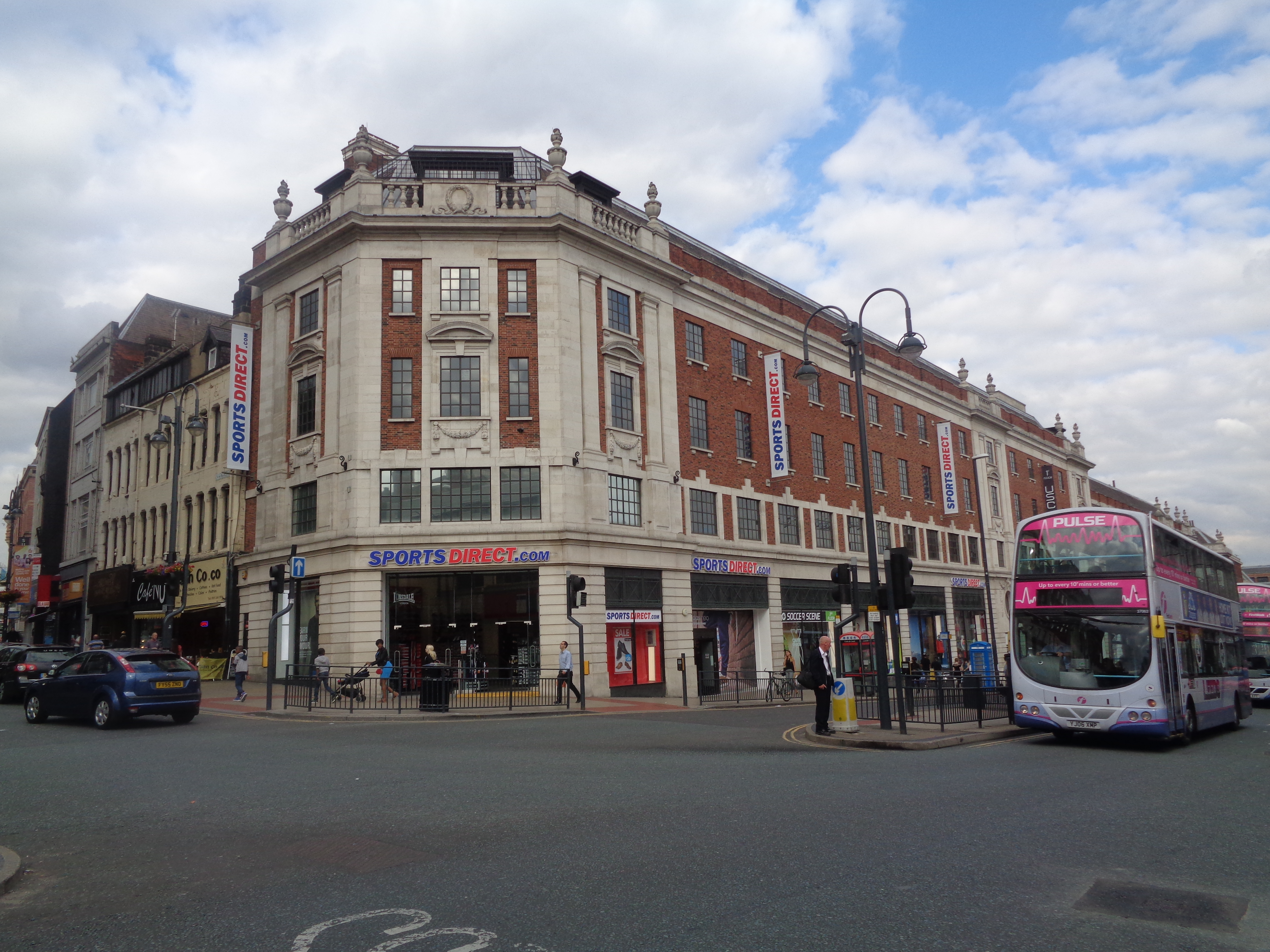 From hoasting Beatles concerts to being a downmarket sports shop, this place has gone down in the world. Originally the Odeon, it then became Primark, a second Primark opened up at Trinity West in 2013 and for two years the two both traded. Eventually though this one closed, Sports Direct then vacated the Schofield Centre (at the time trading as 'the Core') and came down here. Taken on the afternoon of Tuesday the 11th of August 2015.